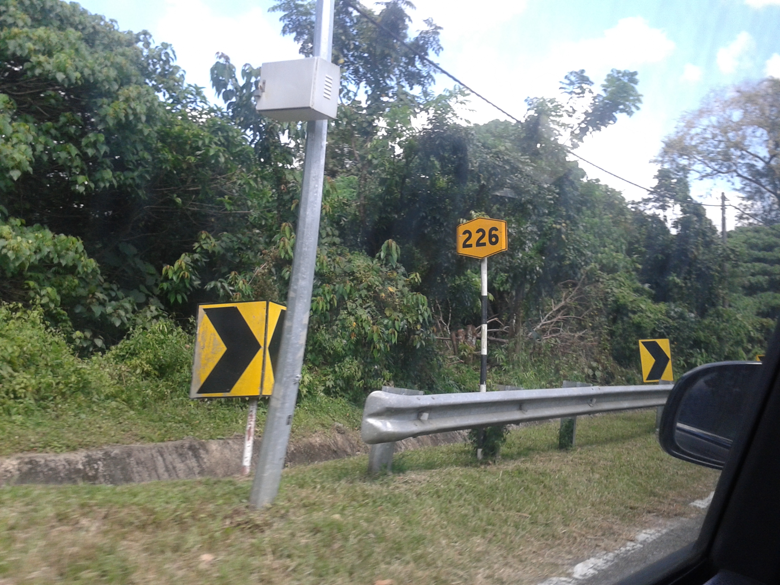 A photo of the Federal Route 226 code.